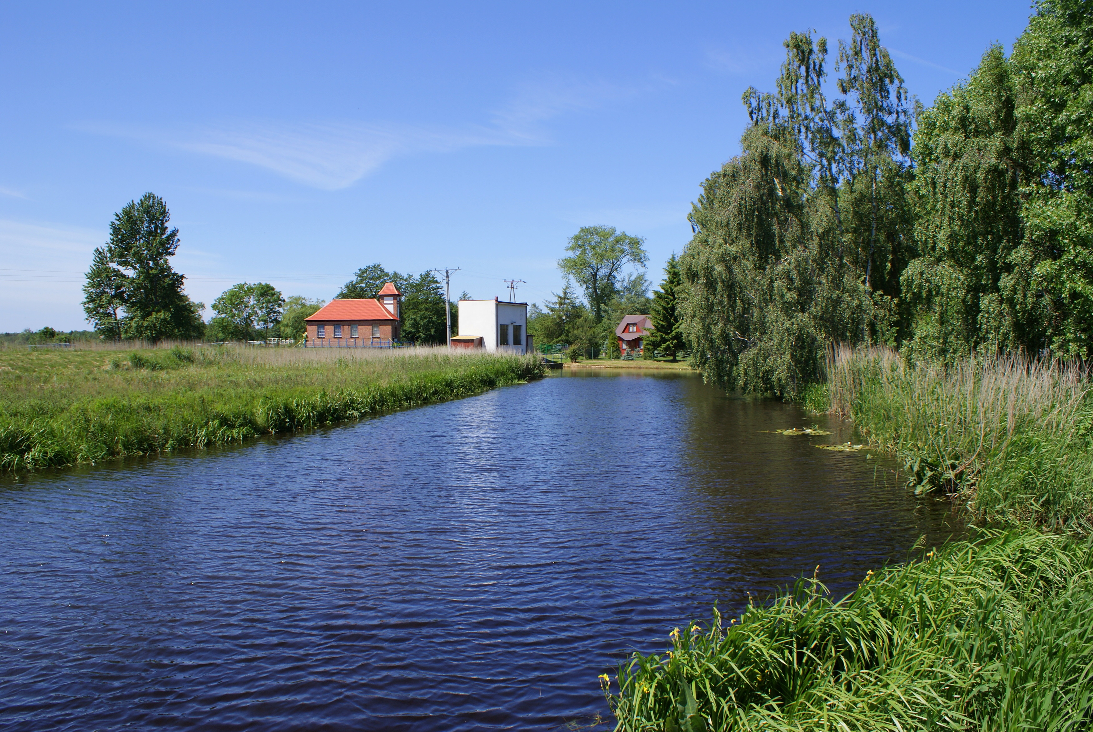 Stara Rega between Zgniła Rega and pumpstation